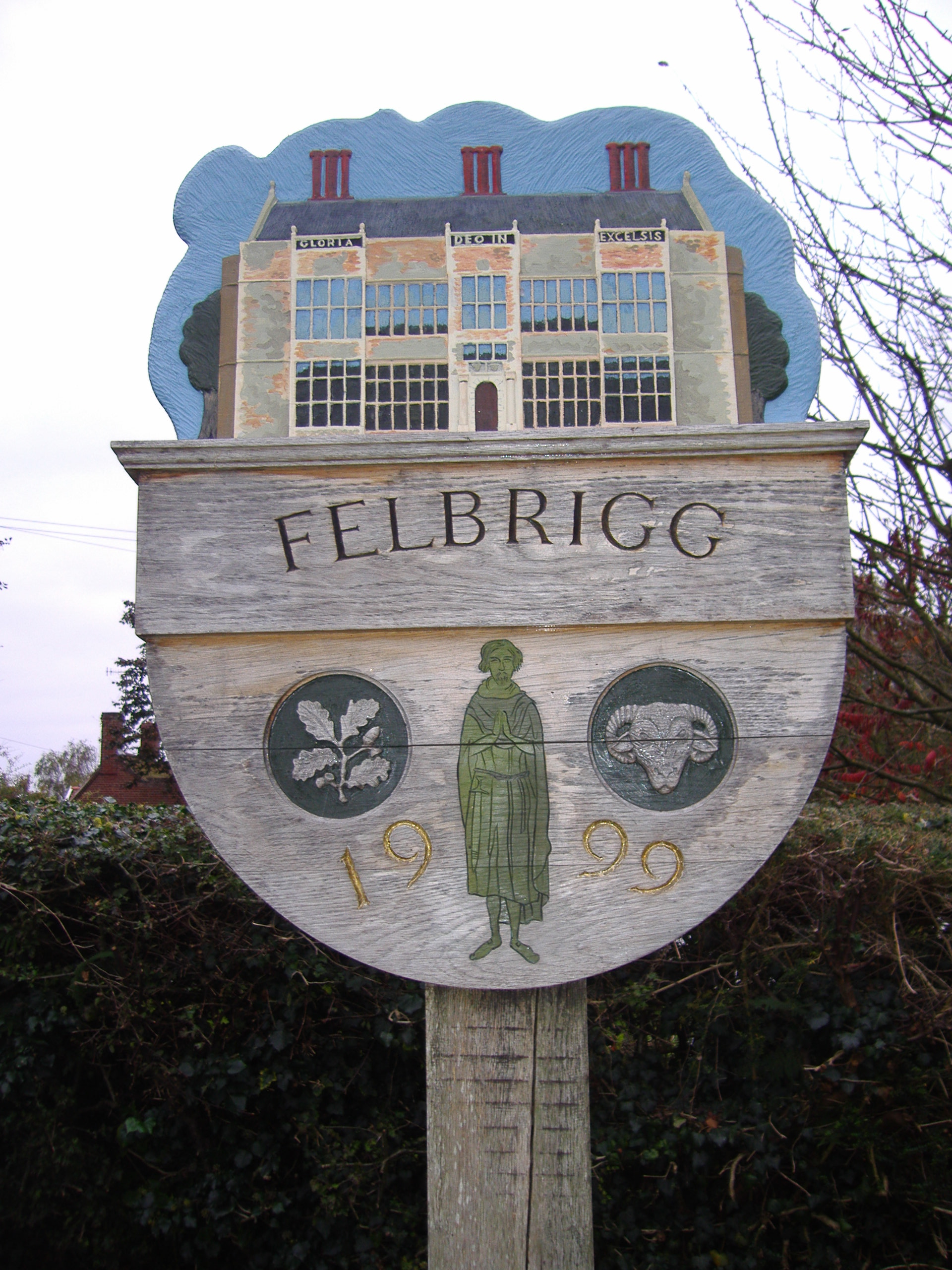 A Digital Photograph of Felbrigg (England) Village sign Taken on the 25th October 2005 by Stavros1